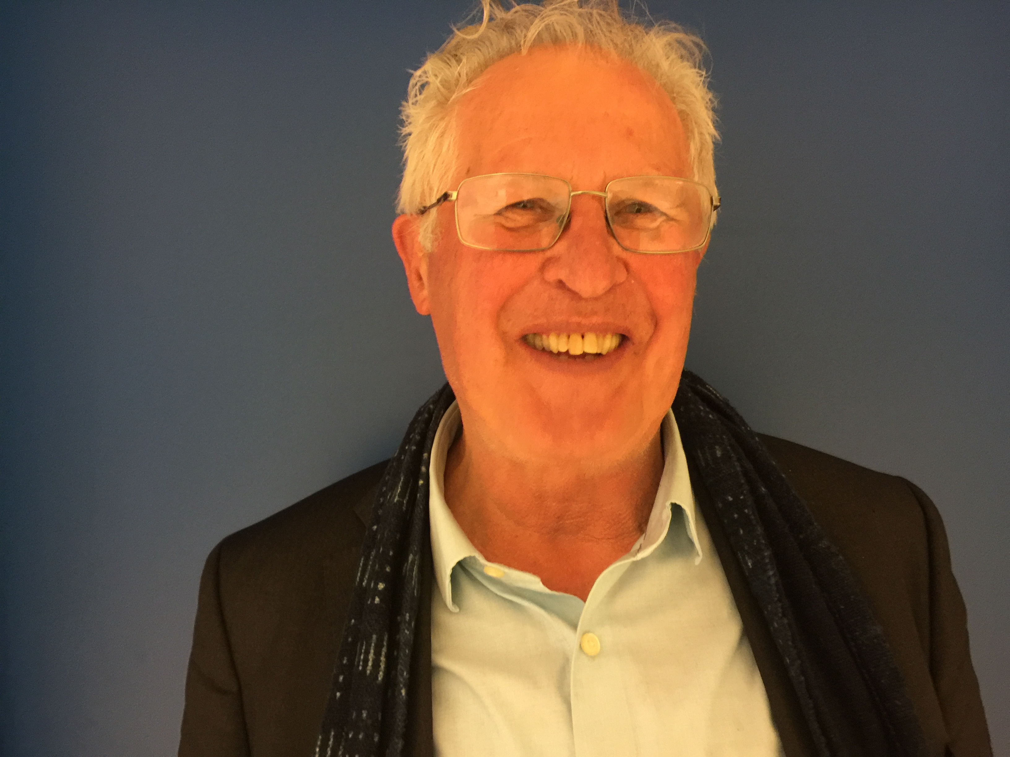 Dutch antropologist Peter Geschiere